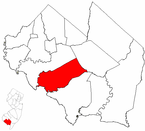 Map of Cumberland County highlighting Lawrence Township